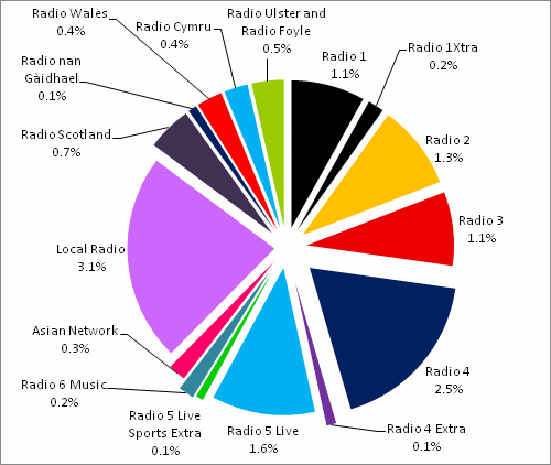 A pie chart showing how the BBC spent it's income during the 2012-13 financial year. This chart demonstrates how much was spent on each radio station with percentages of total for the year also shown.